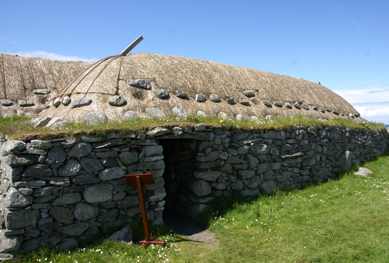 Arnol Blackhouse, Arnol, Lewis, Outer Hebrides, Scotland - no. 42